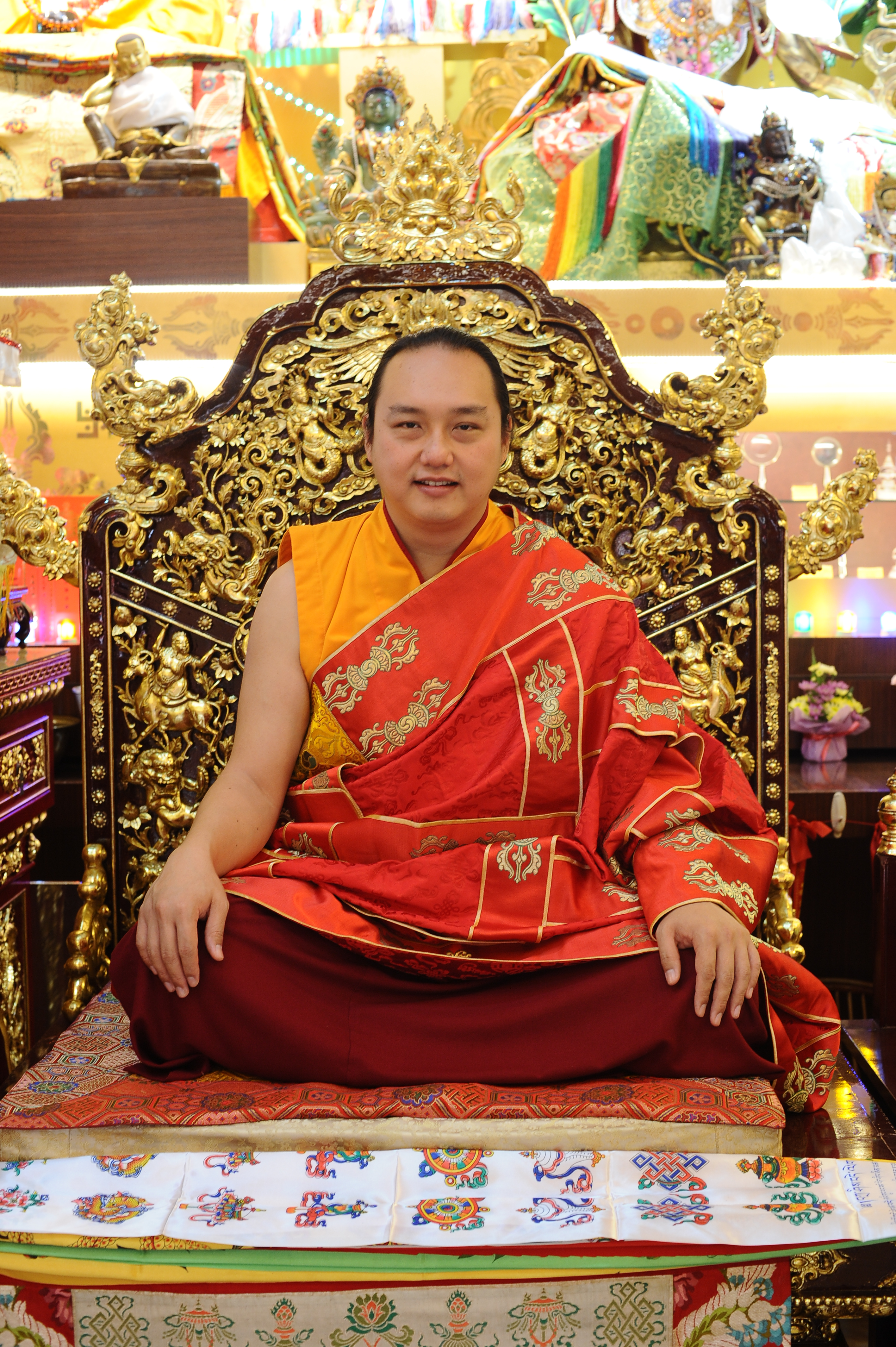 Spiritual Director Namdrol Rinpoche